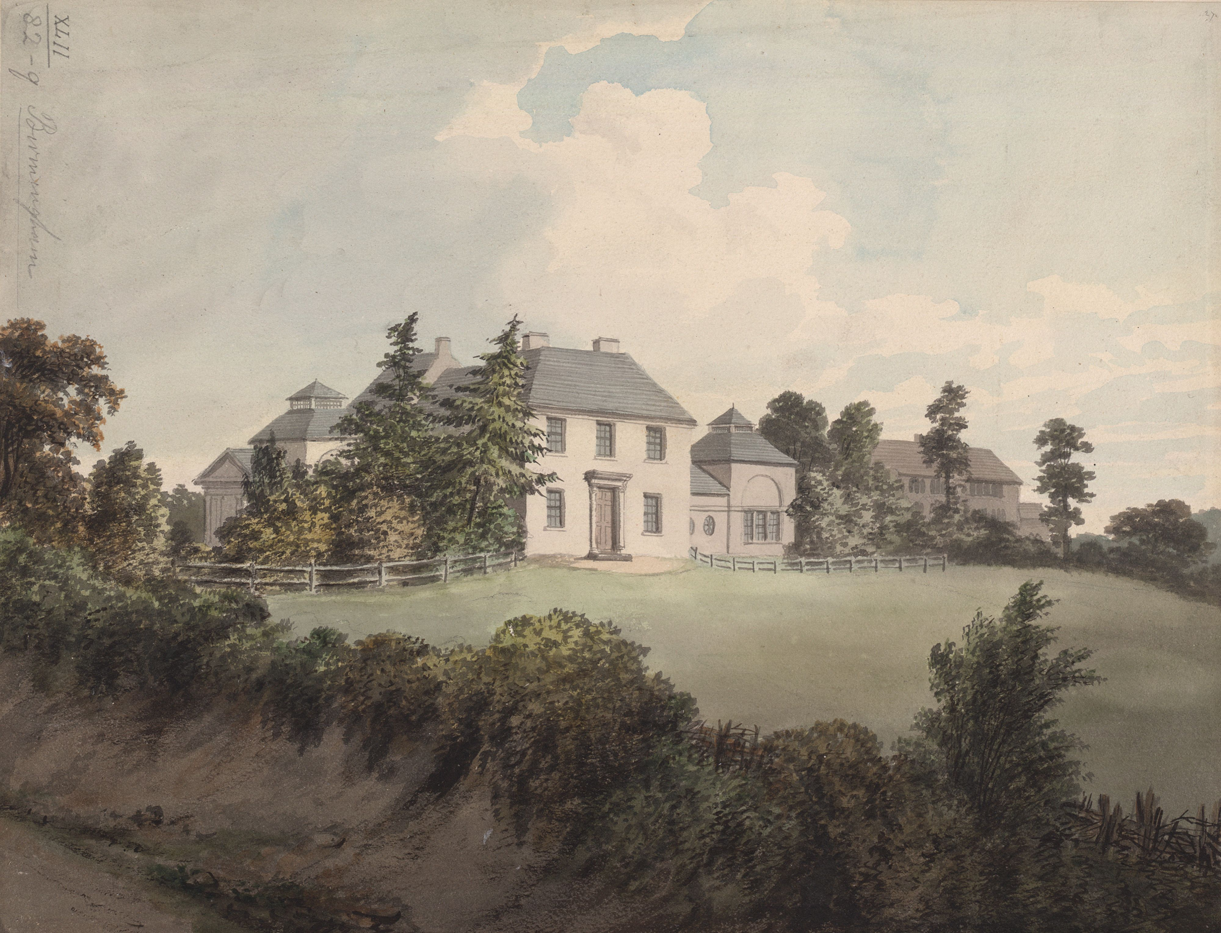 View of Mr Egginton’s House in Soho, Birmingham. Unfortunately the house in this print can not be identified. Soho is an area of North West Birmingham, that until 1911 was part of the Handsworth District. Presumably the home of Francis Eginton (sometimes spelled "Egginton").